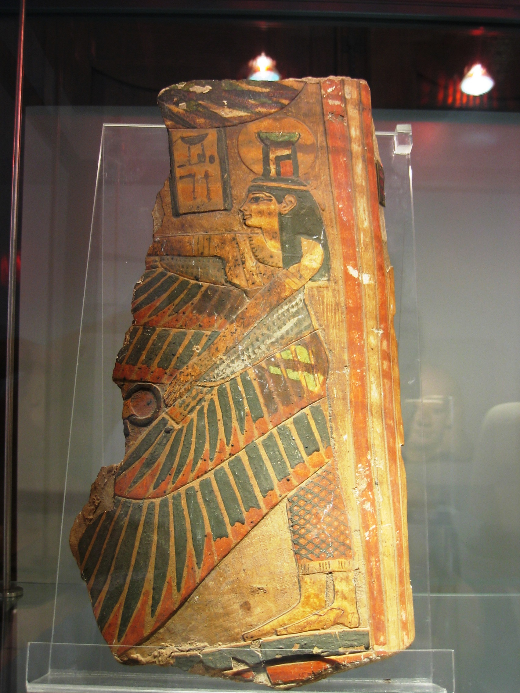 This image depicts the goddess Nebet-Hut or Nephthys in Greek. It comes from the 21st dynastie of Egypt of a sarcofagus.